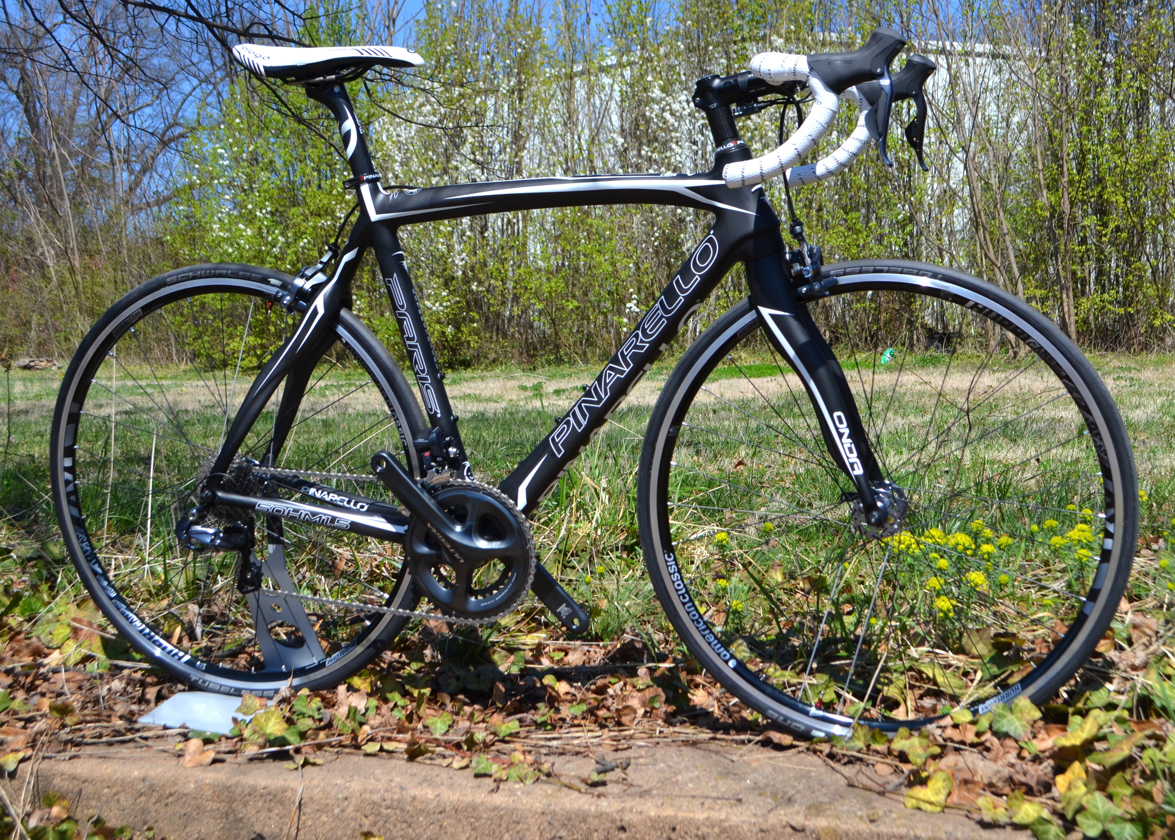 Pinarello Paris with Shimano Ultegra 6800 and American Classic Wheelset